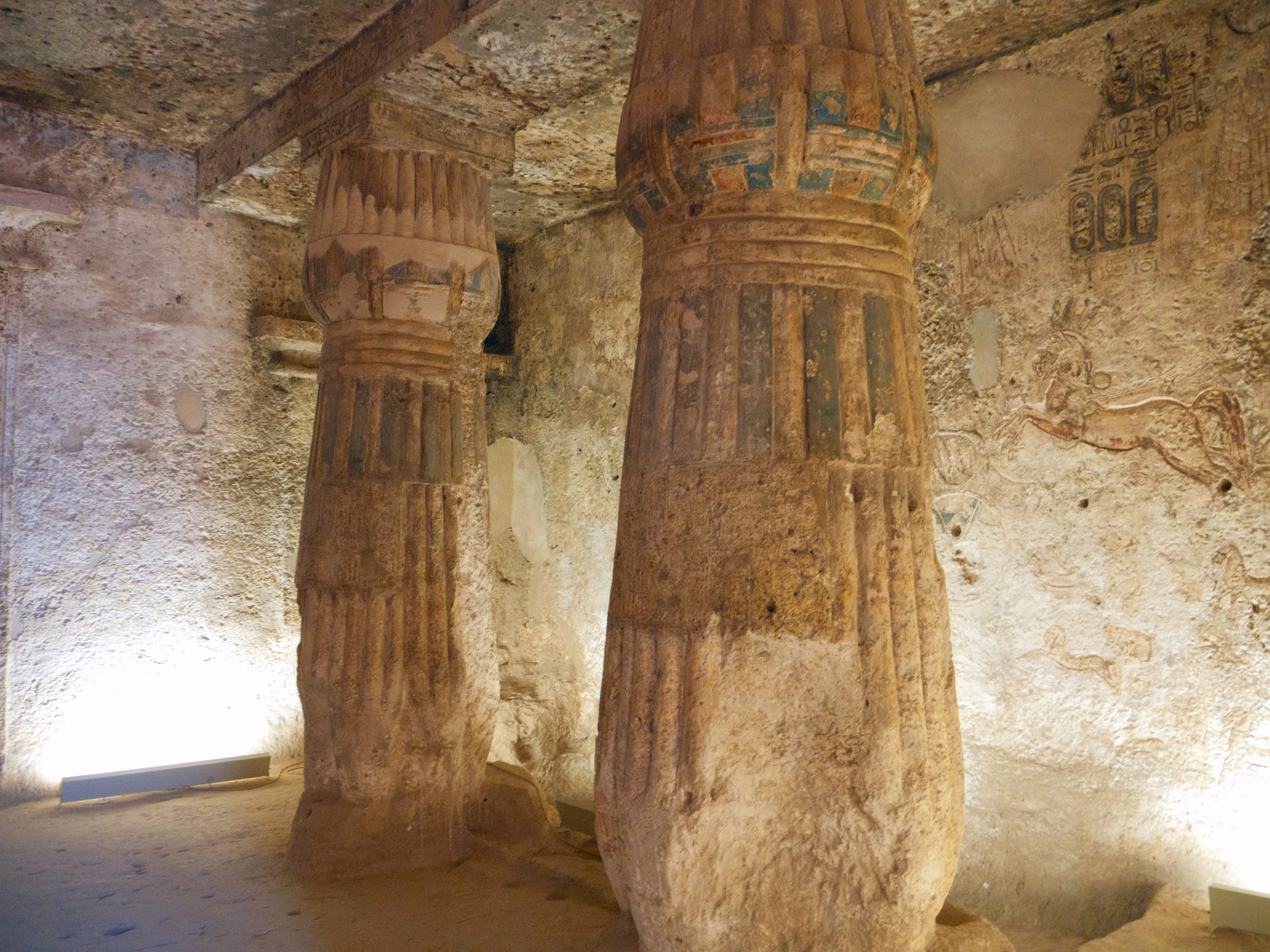 This is tomb EA 6 at Amarna (ancient Akhetaten) which belonged to Panehesy. He held numerous offices such as 'Chief servitor of the Aten in the temple of Aten in Akhetaten' and 'Seal-bearer of Lower Egypt' which emphasizes his importance in Akhenaten's new state capital. His tomb, is one of the better decorated of the North Tombs of Amarna and features excellently carved, though partly damaged, reliefs and retains a lot of its original colour especially on the 2 tomb columns here. The decorated wall façades of the tomb shows scenes of the Egyptian royal family worshipping the Aten with attendant dwarfs. In later times, Panehesy's tomb was re-used as a Coptic church.